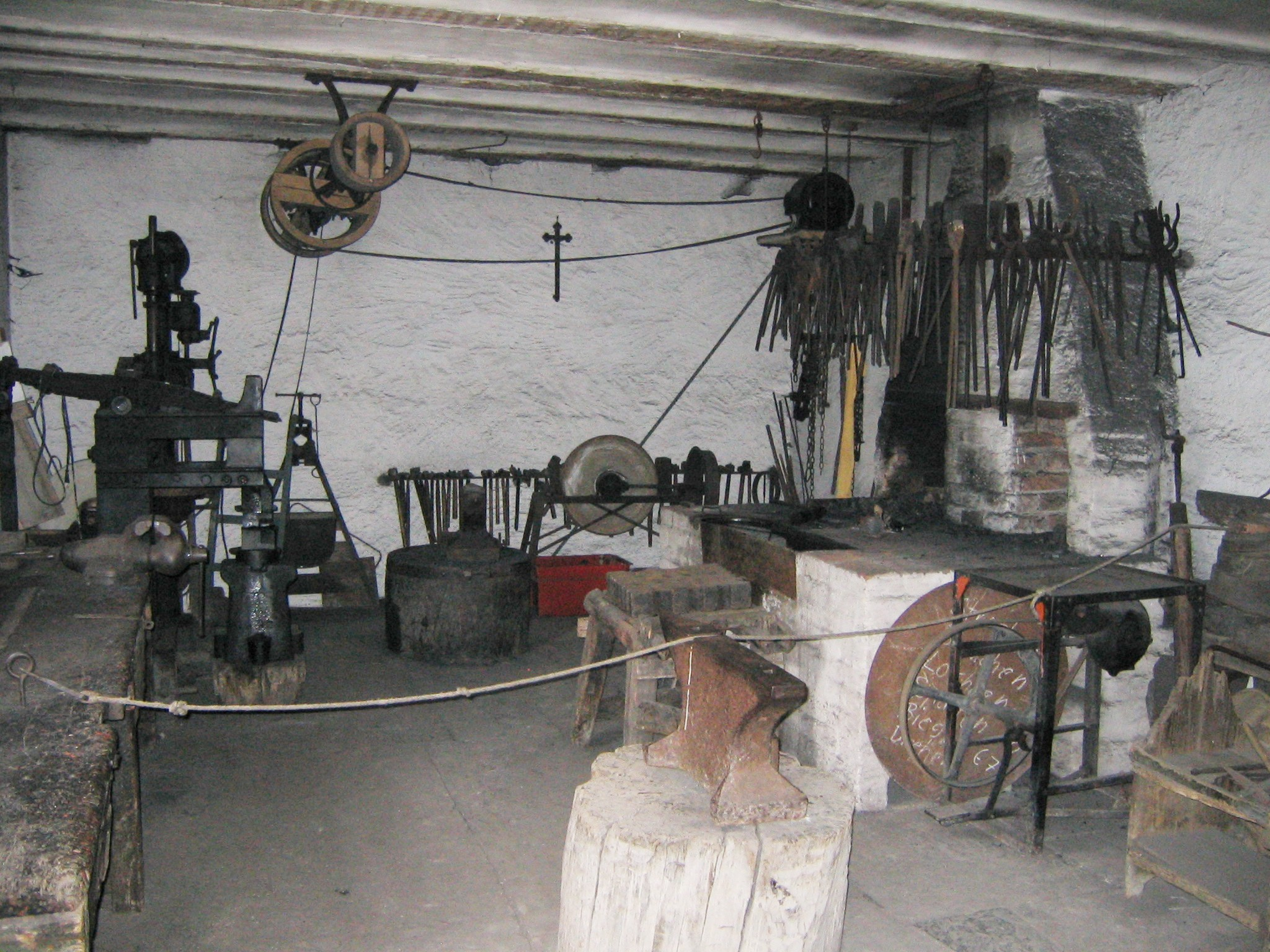 Alte Schmiede im Freilichtmuseum Neuhausen ob Eck. Diese Schmiede war bis 1967 in Betrieb.